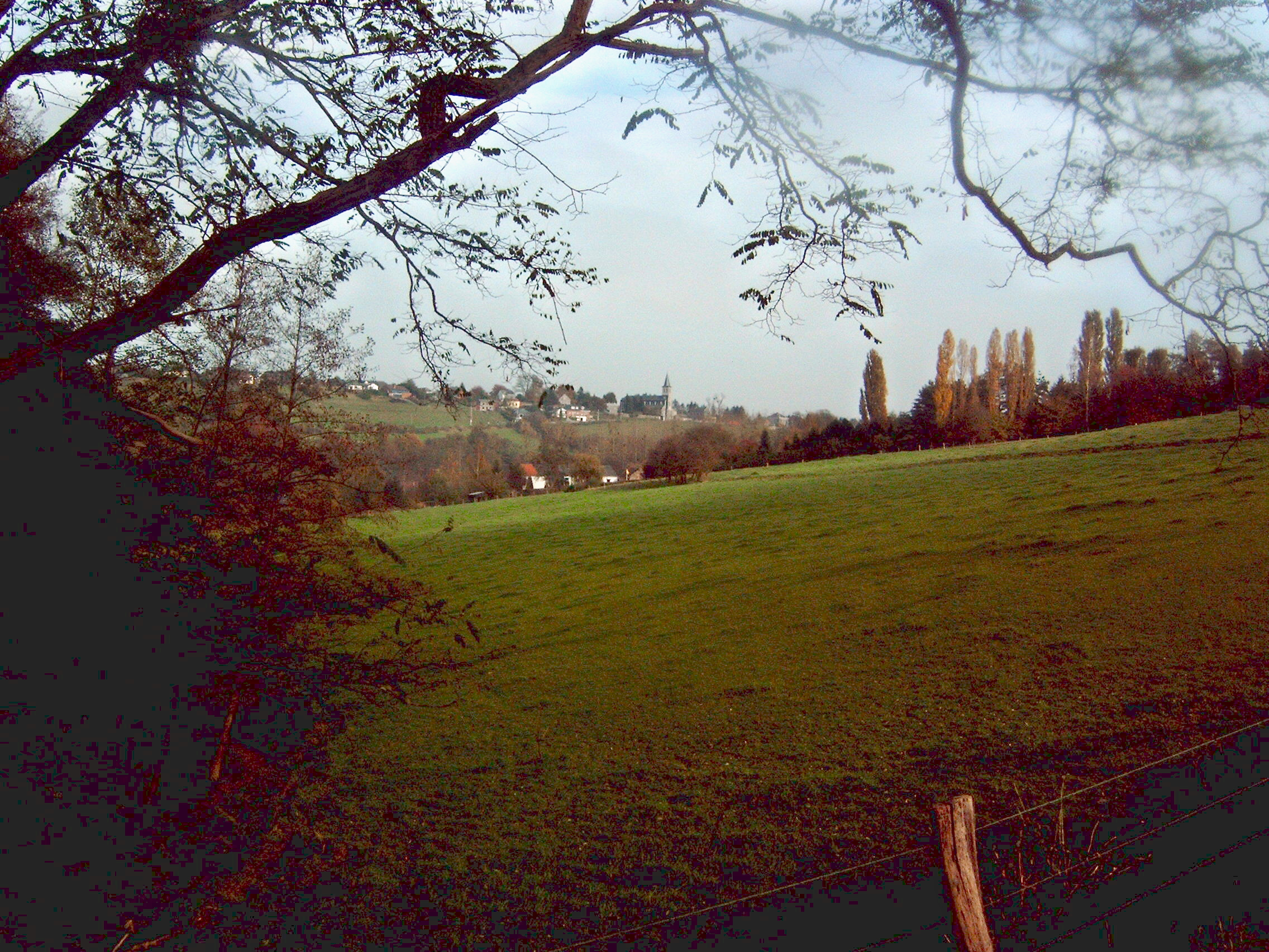 Naninne, small village near the Walloon capital Namur (Belgium)